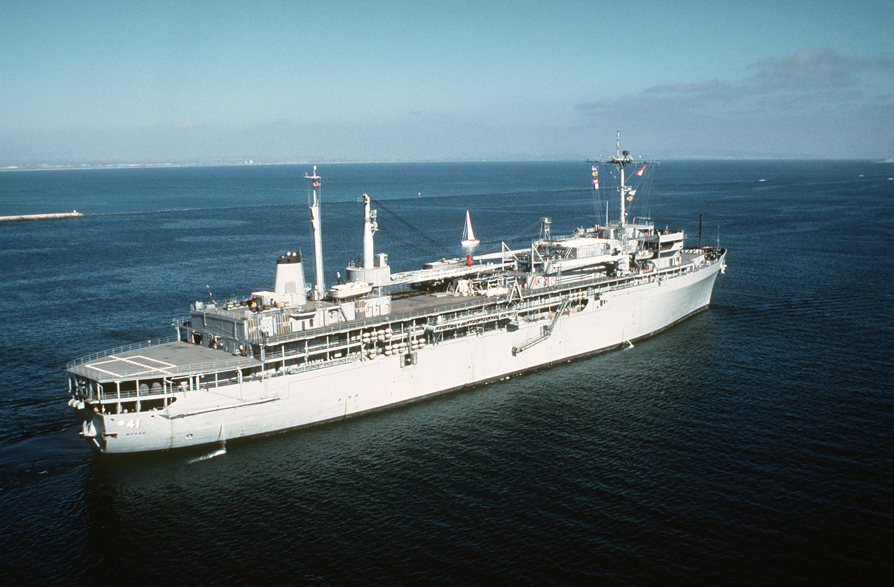 The U.S. Navy submarine tender USS McKee (AS-41) underway off Point Loma, California (USA), in 1984.